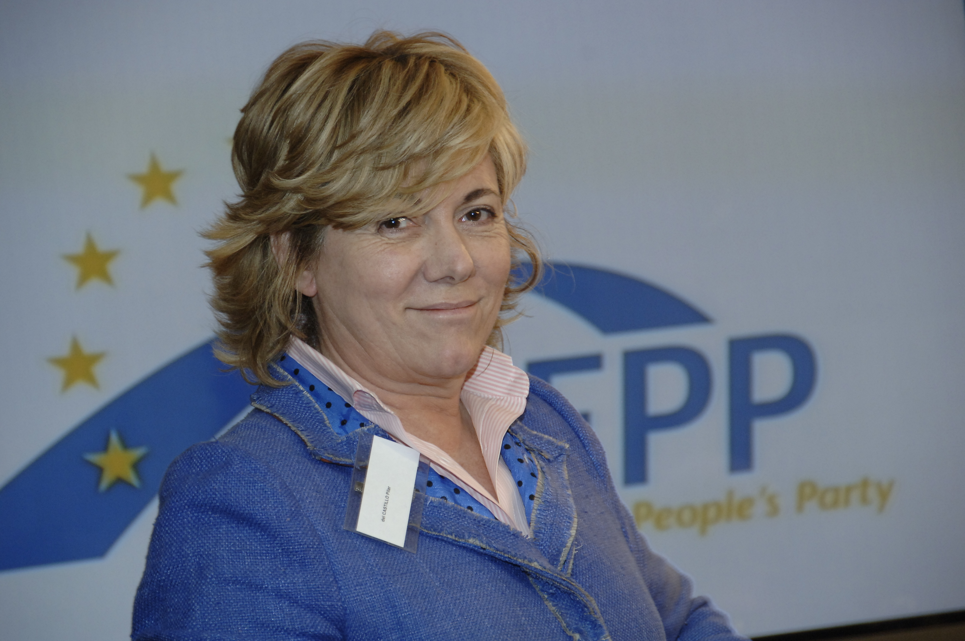 EPP CONVENTION ON CLIMATE CHANGE IN MADRID (6-7 FEBRUARY 2008)